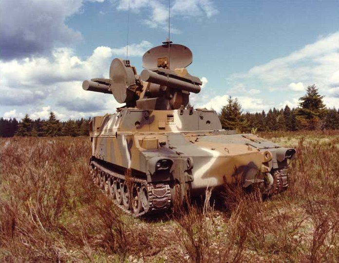 Roland mobile short-range surface-to-air-missile-launcher on M109 chassis. Is just one prototype.